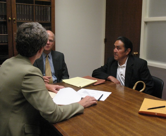 Heather Wilson (left) with David Mielke (center), and Governor Victor Montoya of Sandia Pueblo. (right)